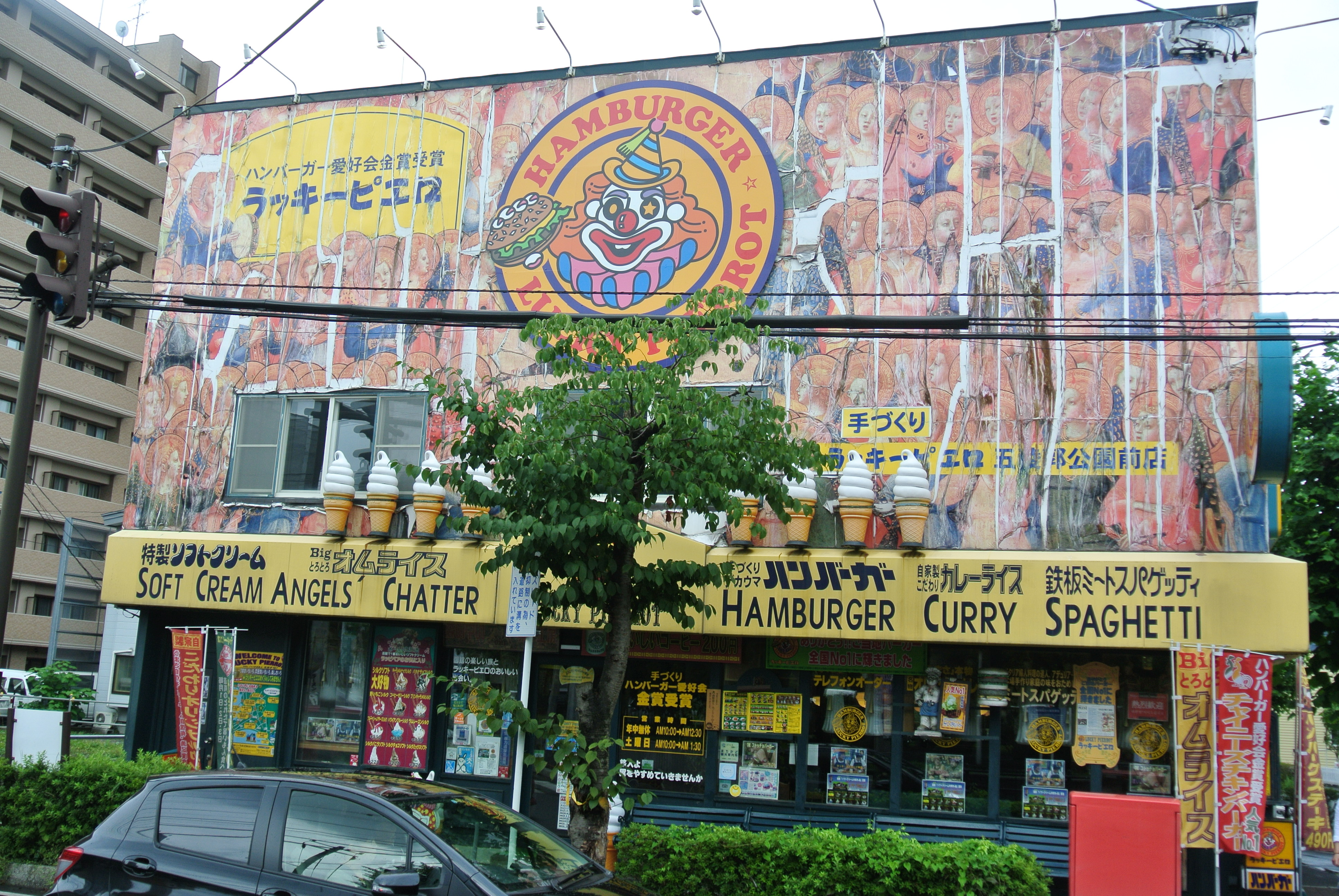 Lucky Pierrot